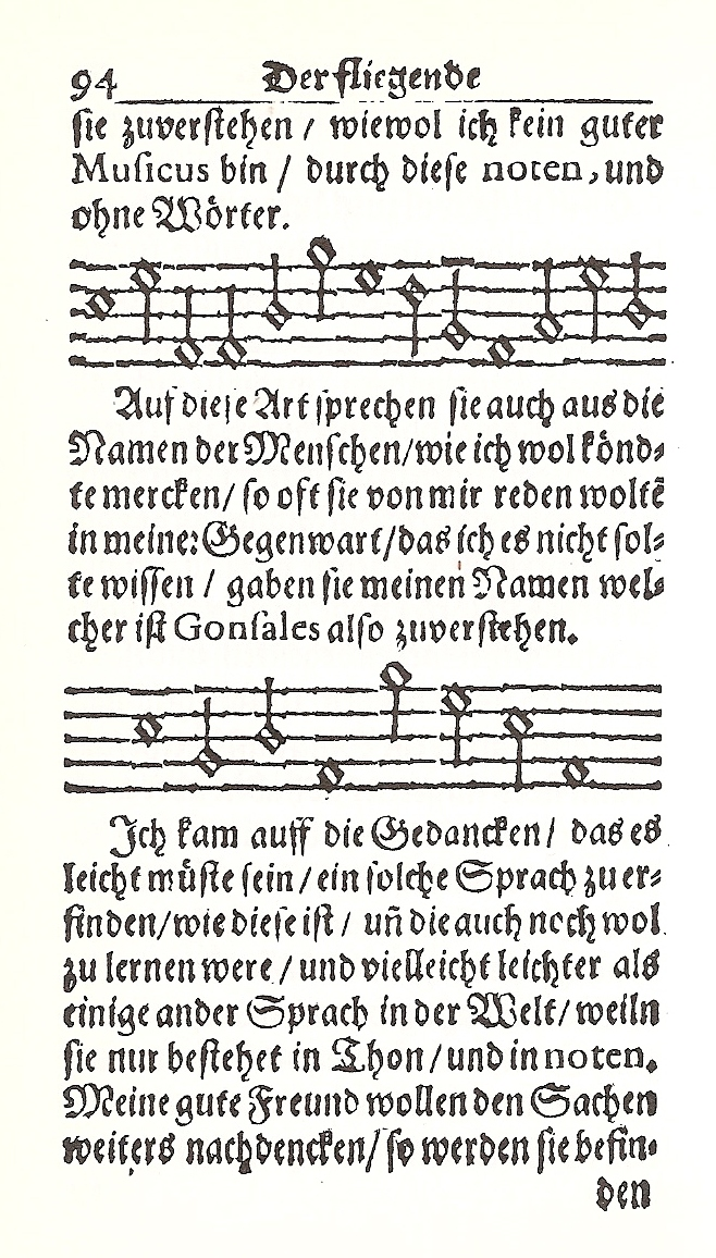 A page from the German translation of Francis Godwin's The Man in the Moone, showing the transcription of lunar language.